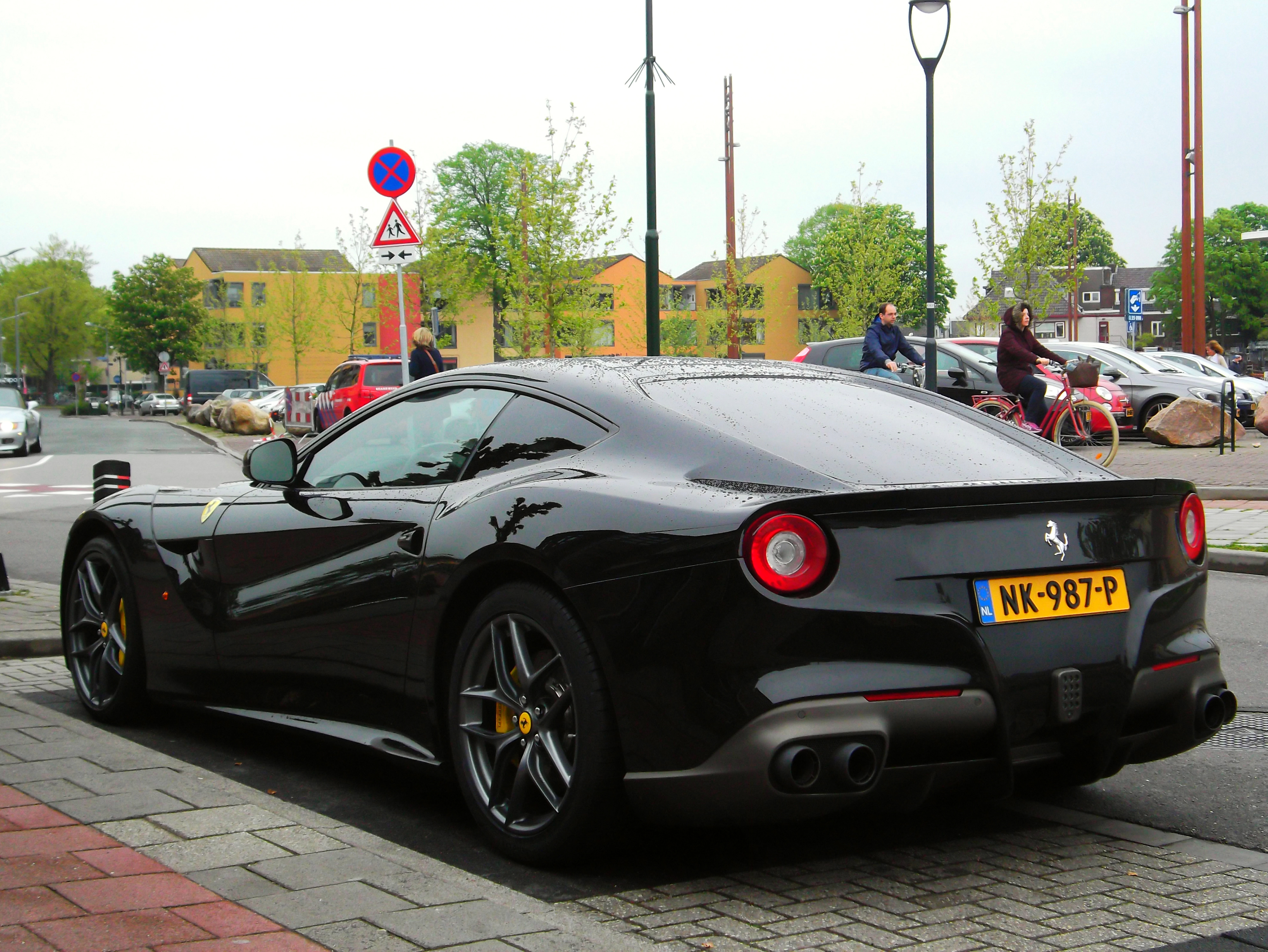 2014 Ferrari F12 Berlinetta s/n 201699.[1]